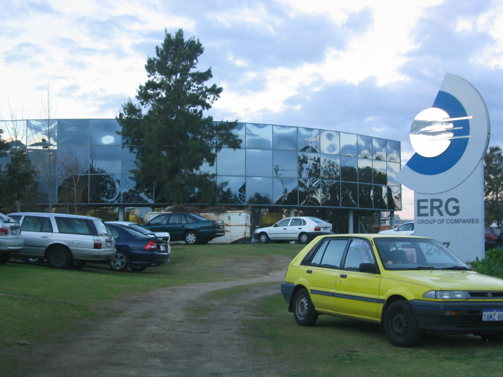 The ERG Group Head Office, at Balcatta, Western Australia.